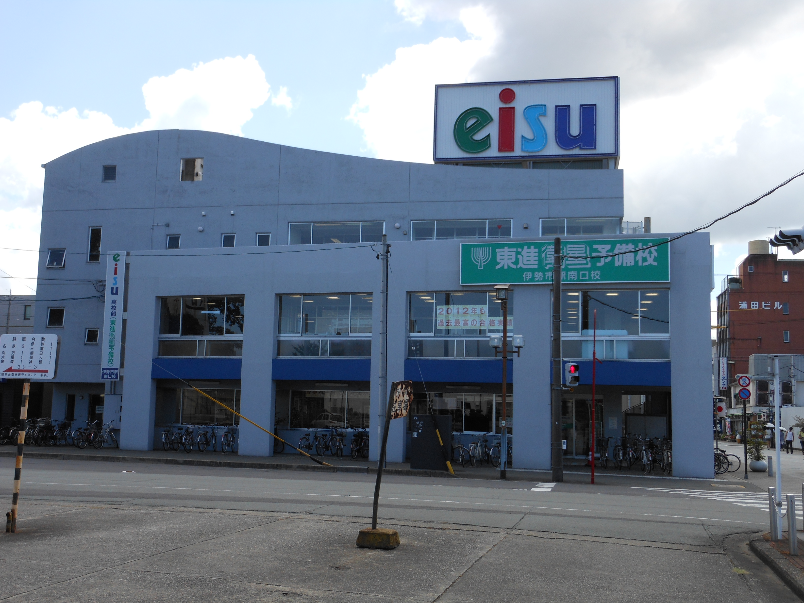 This is a juku or a clam school in Ise, Mie, Japan. This juku takes part in Toshin Satellite preparatory school.